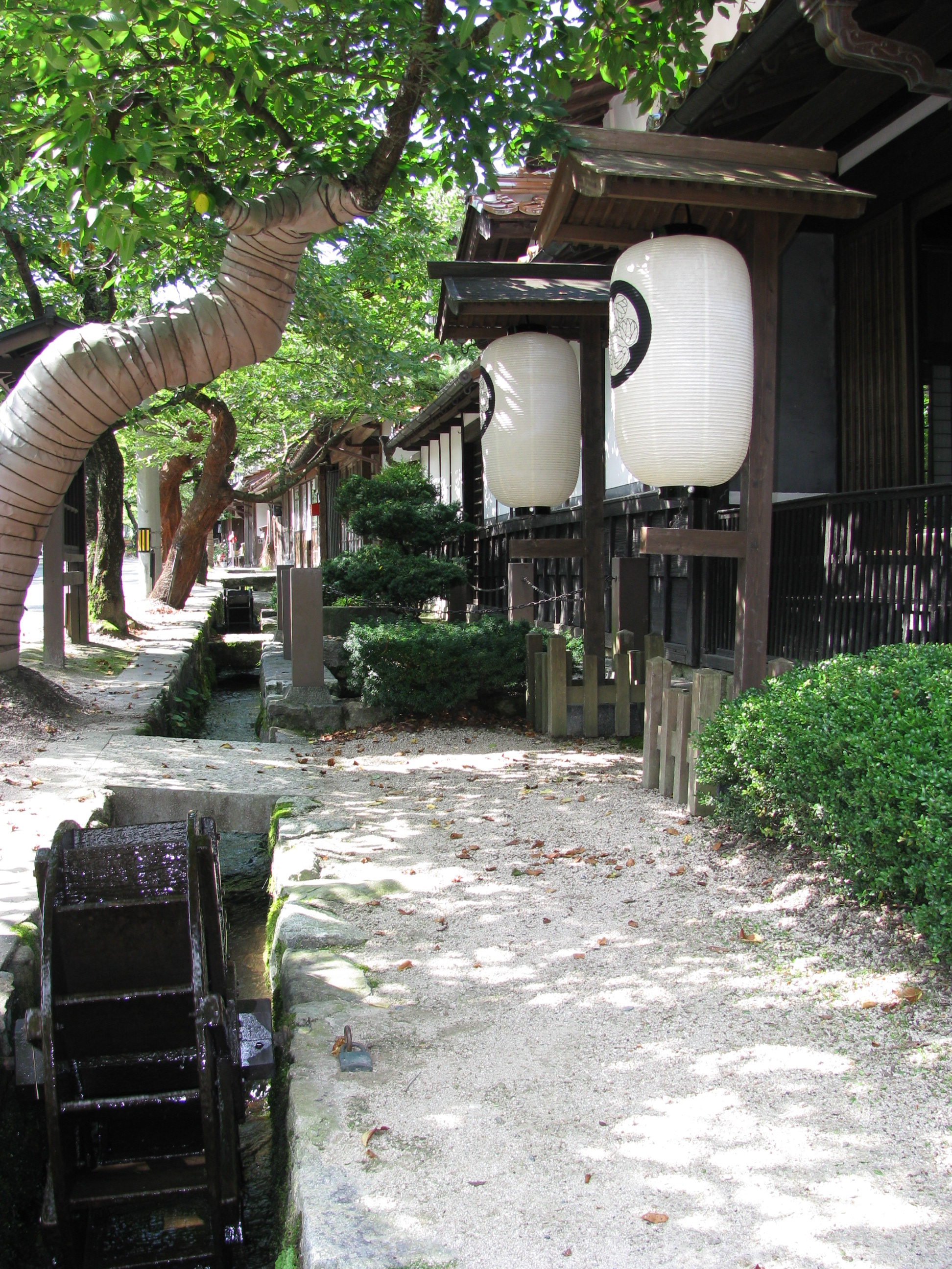 The Waki-honjin of Shinjō-juku at Izumo-kaido. This place is Shinjō, Okayama, Japan.